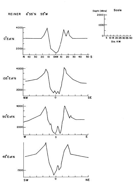 Reiner crater cross section